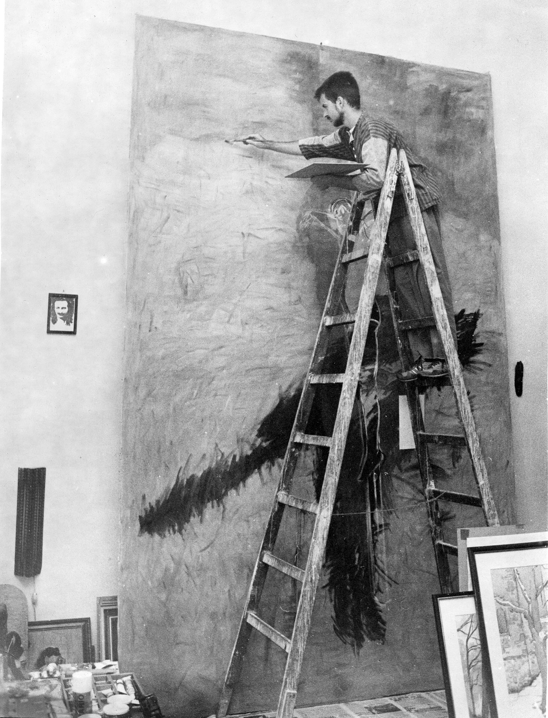 Artist Alfred Freddy Krupa during initial stages of oil on canvas painting, photograhed by Danko Fajt